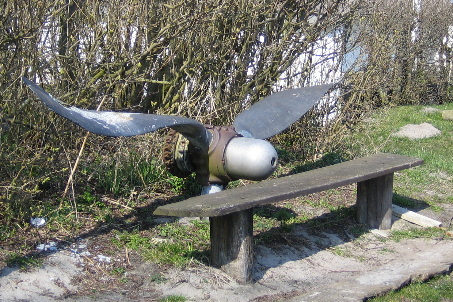 Propeller of a crashed B17 flying fortress in Örnahusen, Sweden